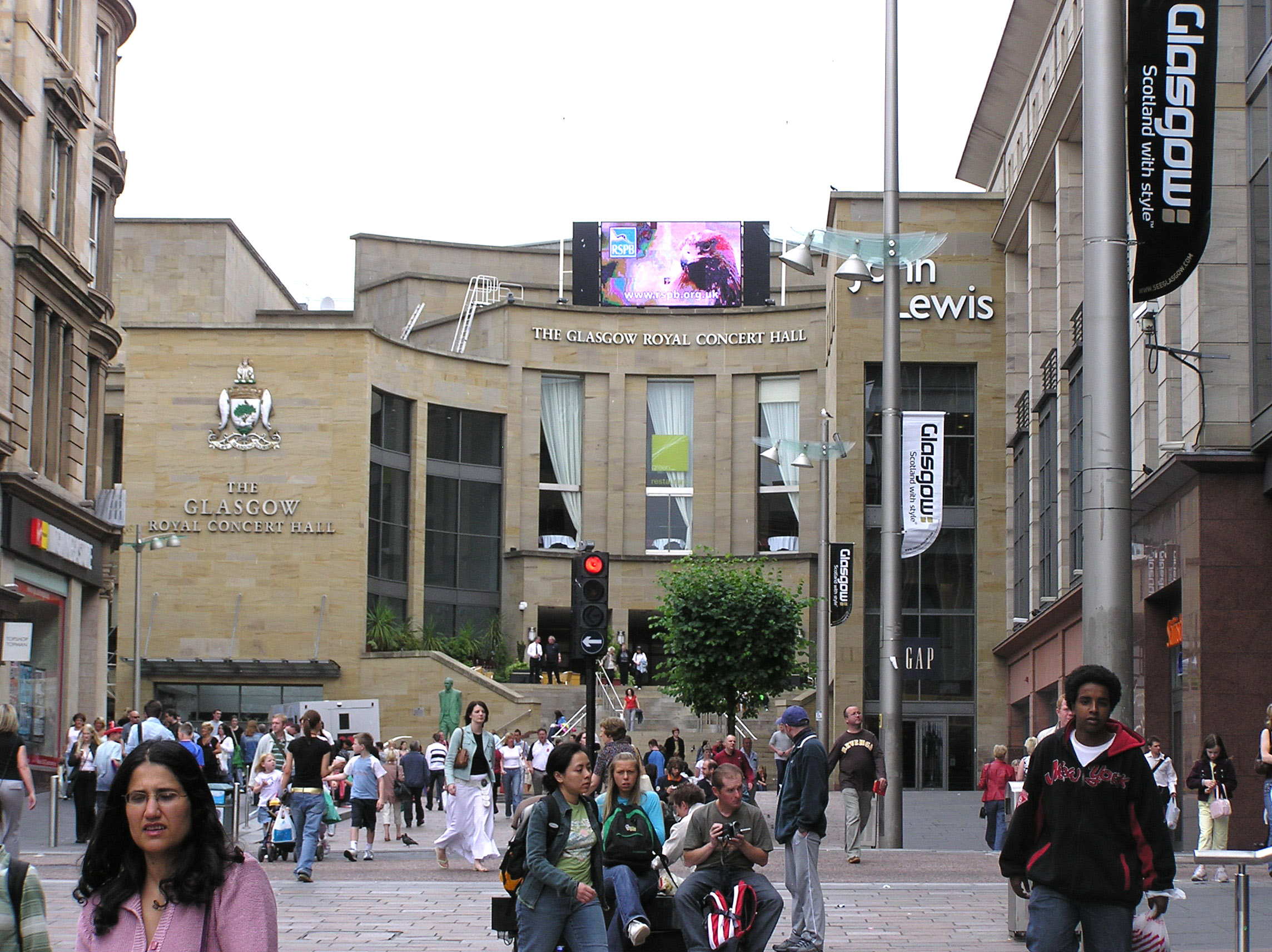 The Royal Concert Hall in Glasgow, Scotland.